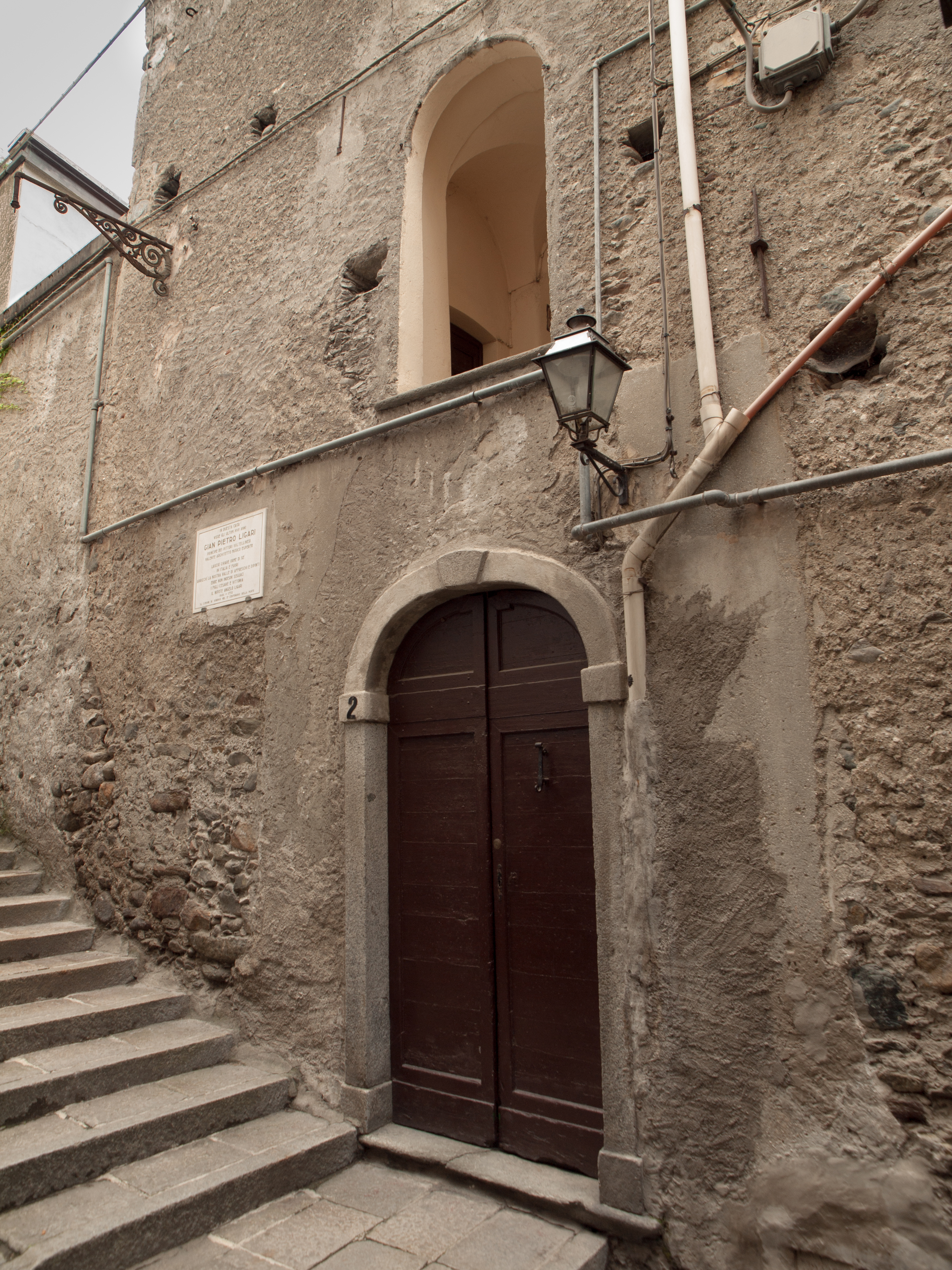 this is the house where Pietro Ligari lived the last 25 year of his life. It's located in Sondrio, Italy.